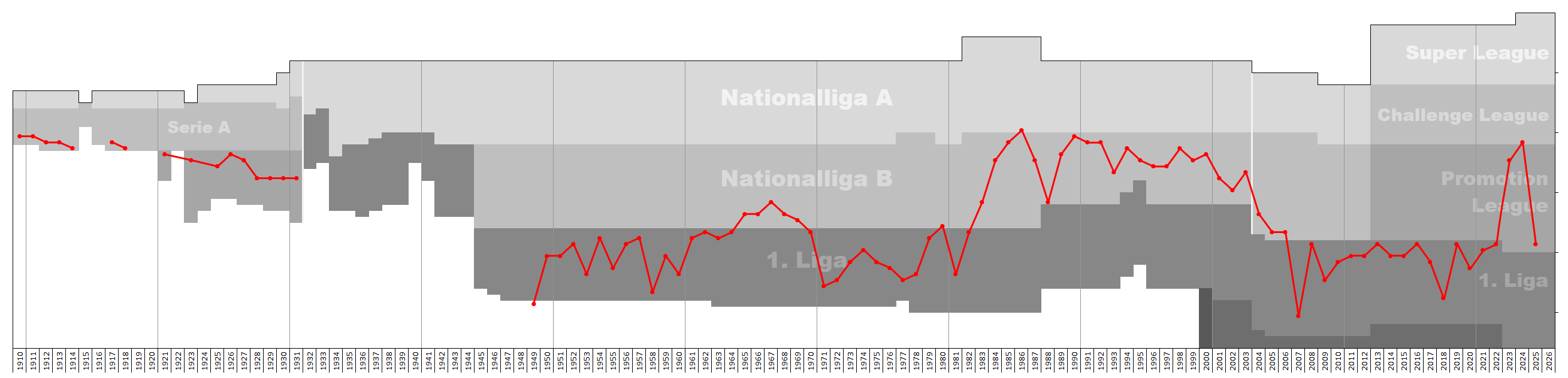 Chart of end-season table positions for FC Baden in the Swiss football league system. Data source: RSSSF